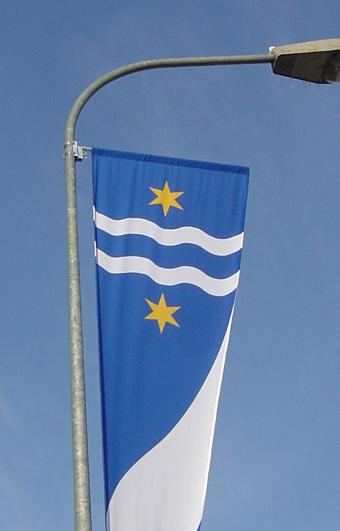 Flag of Nesslau-Krummenau (Canton of St. Gallen, Switzerland)